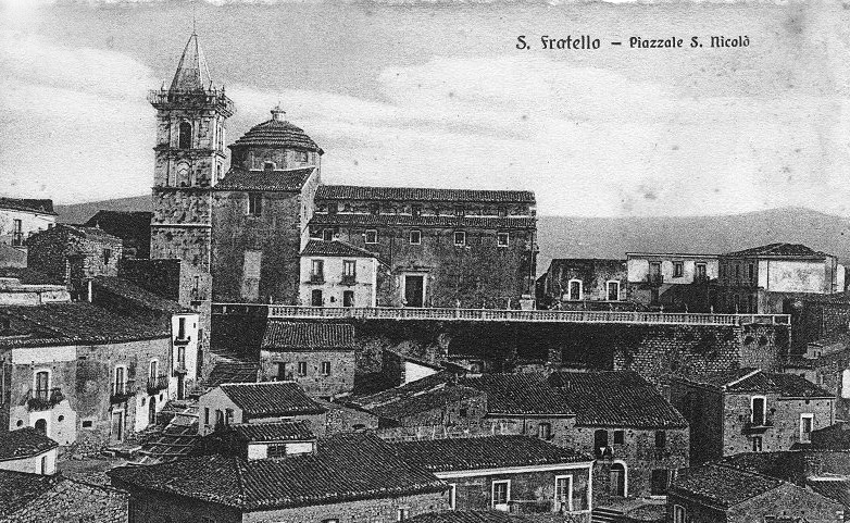 San Fratello. Church of San Nicolo about 1900